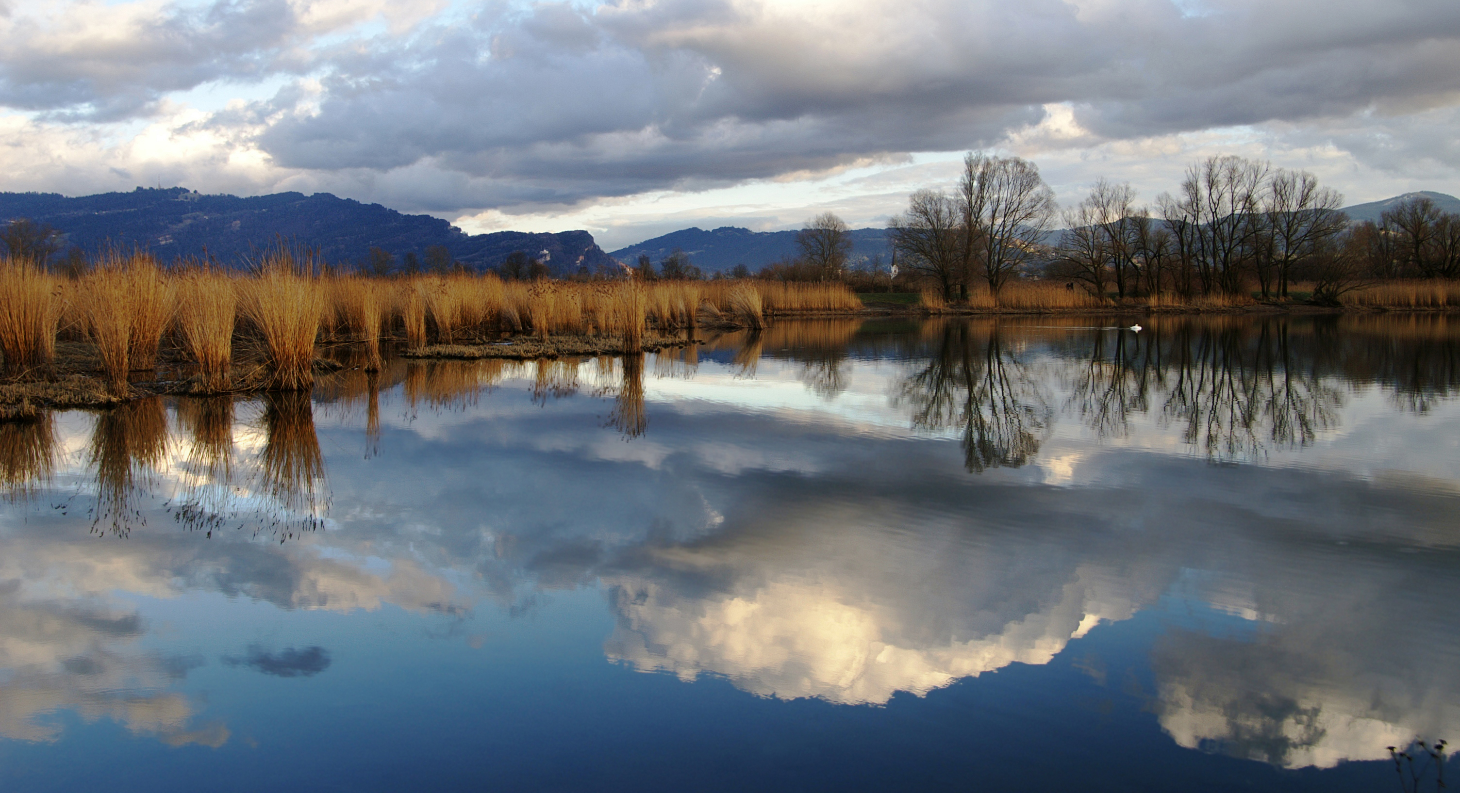 The Schleienlöcher nature reserve in Hard (Austria) with view towards the Pfänder the Gebhardsberg and the Bregenzerwald.